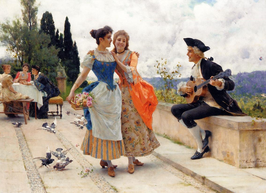 The Serenade